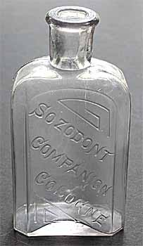 A Sozodont cologne bottle, produced as a companion product to the Sozodont oral hygiene dentifrice. Approved for all use with attribution.